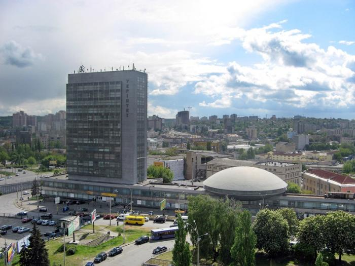 The State Scientific and Technical Library of Ukraine, SSTL is the main academic library of Ukraine and is part of the system of scientific and technical information of the Ministry of Education and Science of Ukraine. The purpose of the State Scientific and Technical Library of Ukraine activity is to promote the implementation of state policy in the field of education, science and culture, and to ensure the access of scientists, specialists, and citizens to sources of scientific and technical information.